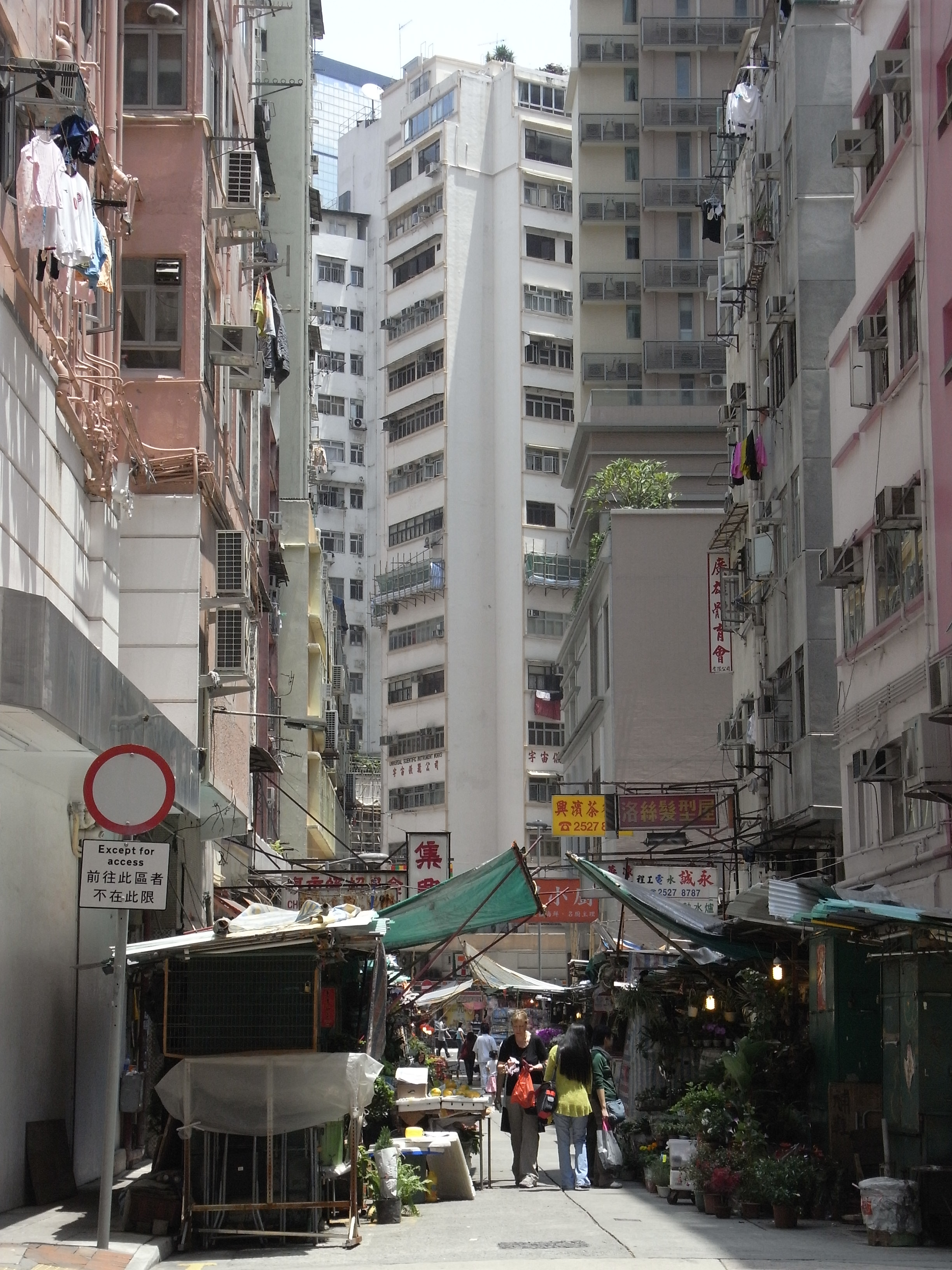 灣仔 皇后大道東 望機利臣街